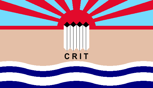 Flag of the Colorado River Indian Tribes (consisting of Navajo, Hopi, Chemehuevi and Mohave), which I made myself, based on the image on this ( page.